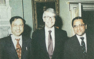 Dnyaneshwar Agashe with Sir John Major and Sanjay Dalmia at Number 10, Downing Street in 1994.